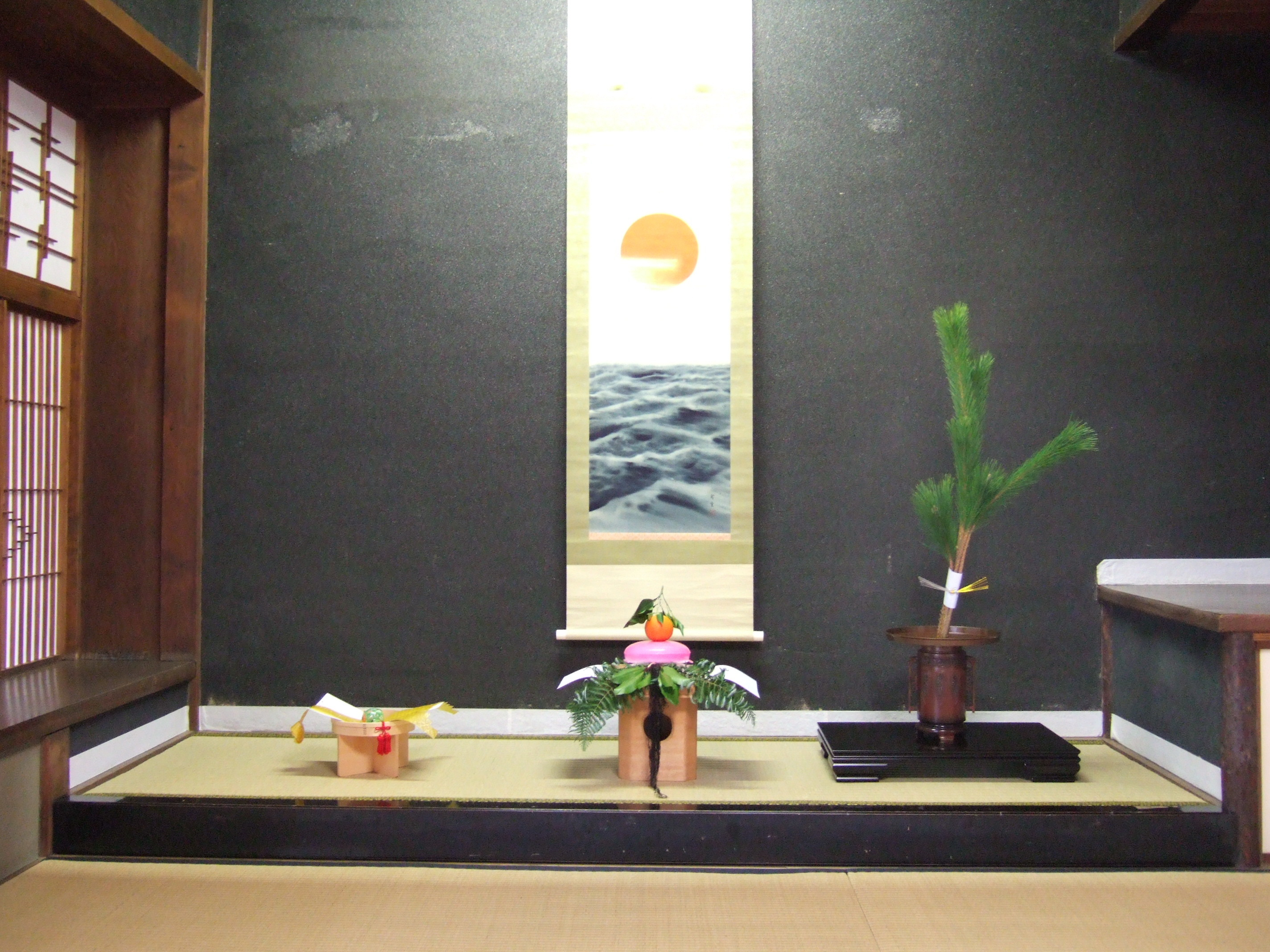 Tokonoma during New Year's celebration, Kanazawa City